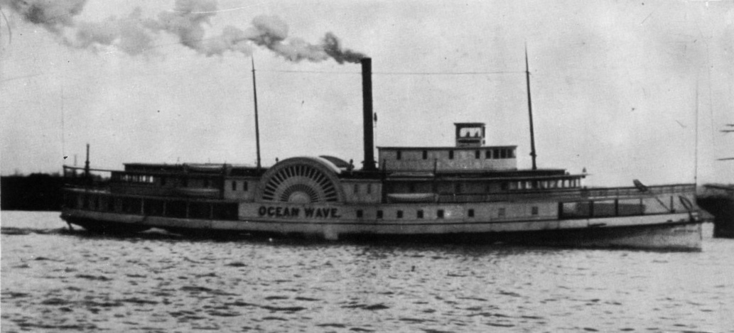 Sidewheeler Ocean Wave, built 1891, transferred to California 1899, converted to restaurant 1920s. For dates, see Affleck, Edward L., A Century of Paddlewheelers in the Pacific Northwest, the Yukon, and Alaska, Alexander Nicolls Press, Vancouver BC 2000 ISBN 0-920034-08-X